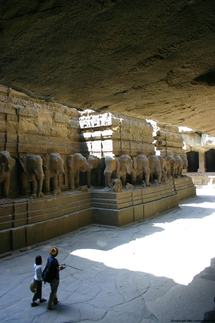 Ellora caves. Cave 16. The base of the temple(Nandi Mandap) has been carved to suggest that elephants are holding the structure aloft.